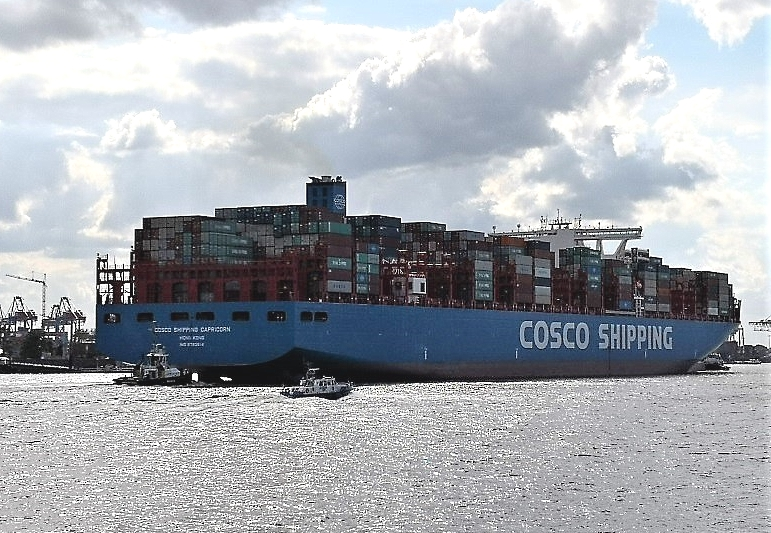 Rear view of the new Cosco Shipping Capricorn at the turning maneuver in the Port of Hamburg in August 2018